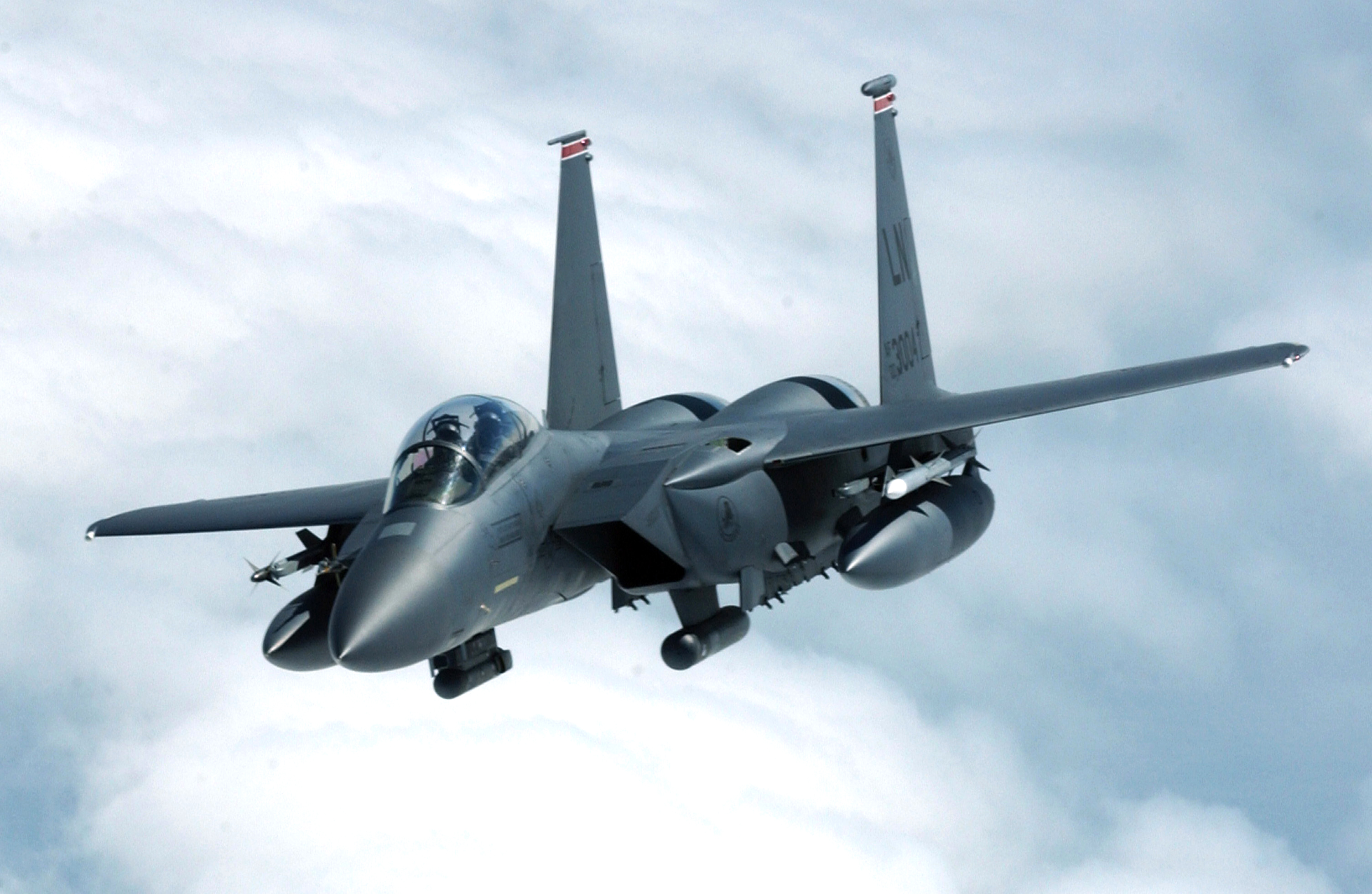 OVER THE NORTH SEA -- An F-15E Strike Eagle from the 494th Fighter Squadron, Royal Air Force Lakenheath, United Kingdom, banks away after receiving fuel during a training mission here July 19. The F-15E Strike Eagle is considered the most advanced two-seat tactical aircraft in the world. The "E's" radar system allows aircrews to pick out bridges and airfields on the radar display from distances more than 80 miles away. (U.S. Air Force photo by Staff Sgt. Tony R. Tolley)